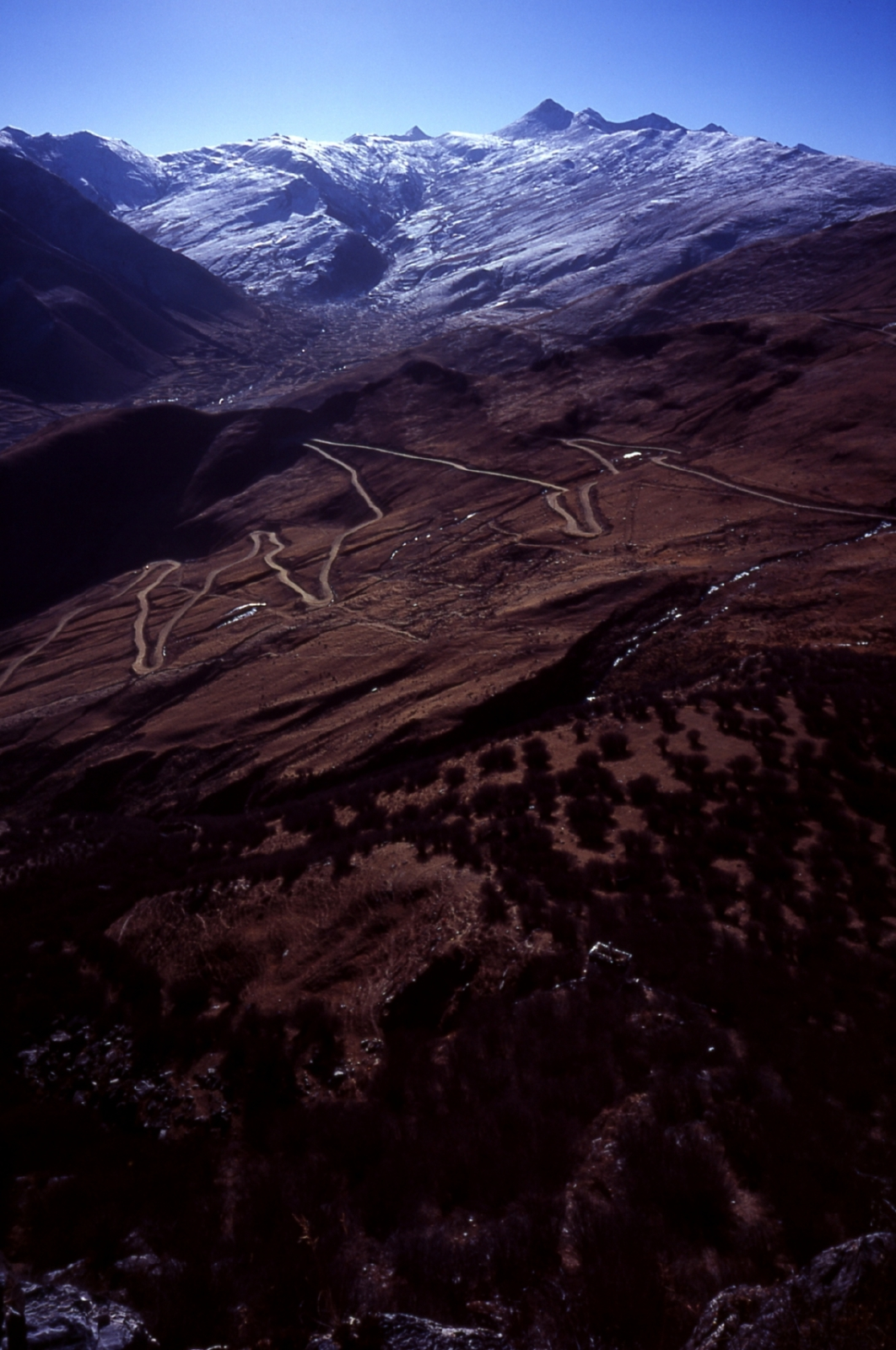 road to ganden.